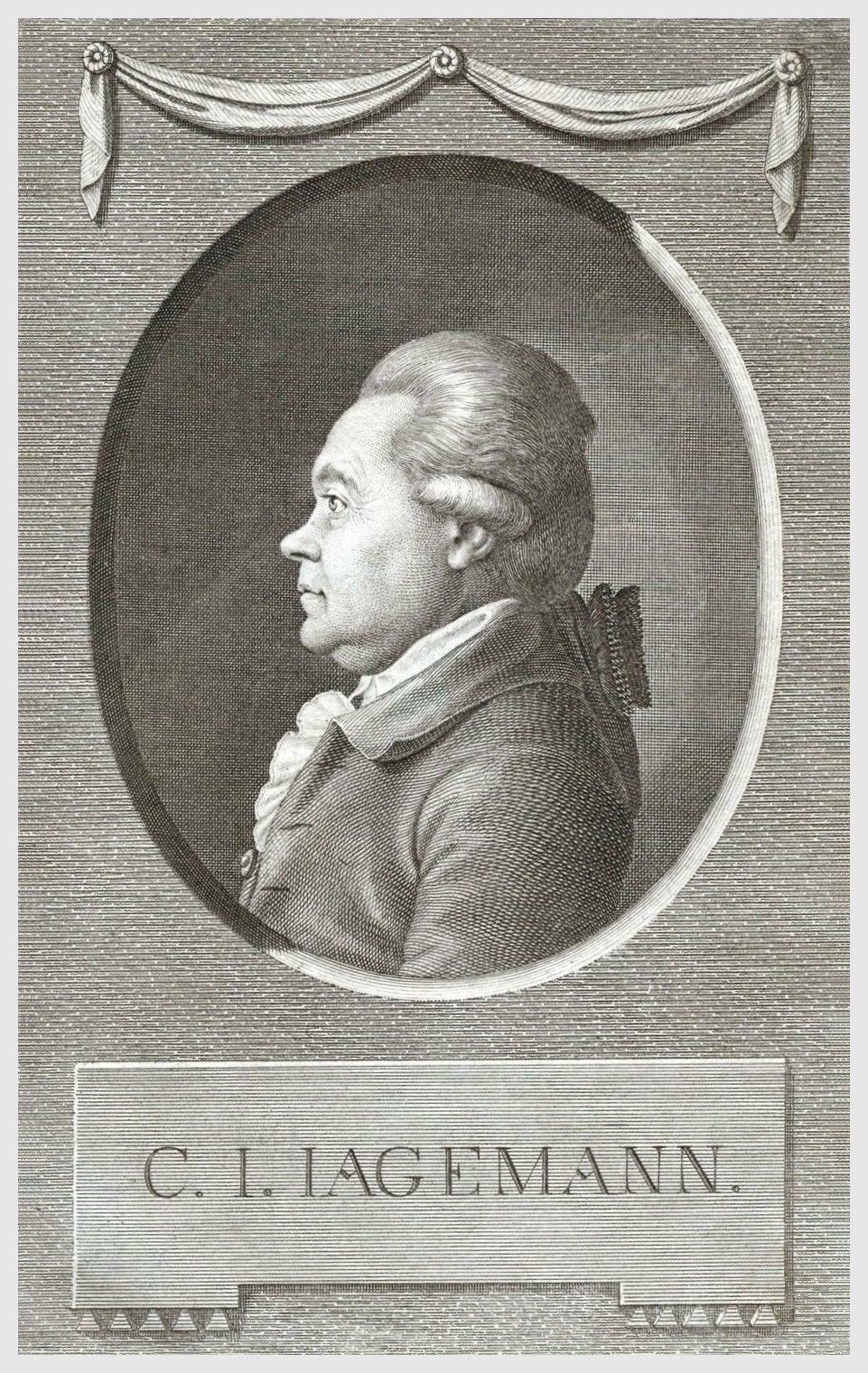 A portrait of Christian Joseph Jagemann (1735-1804), a German literary historian, Councilor and librarian. Original engraving by J. h. Lips (1758-1817).